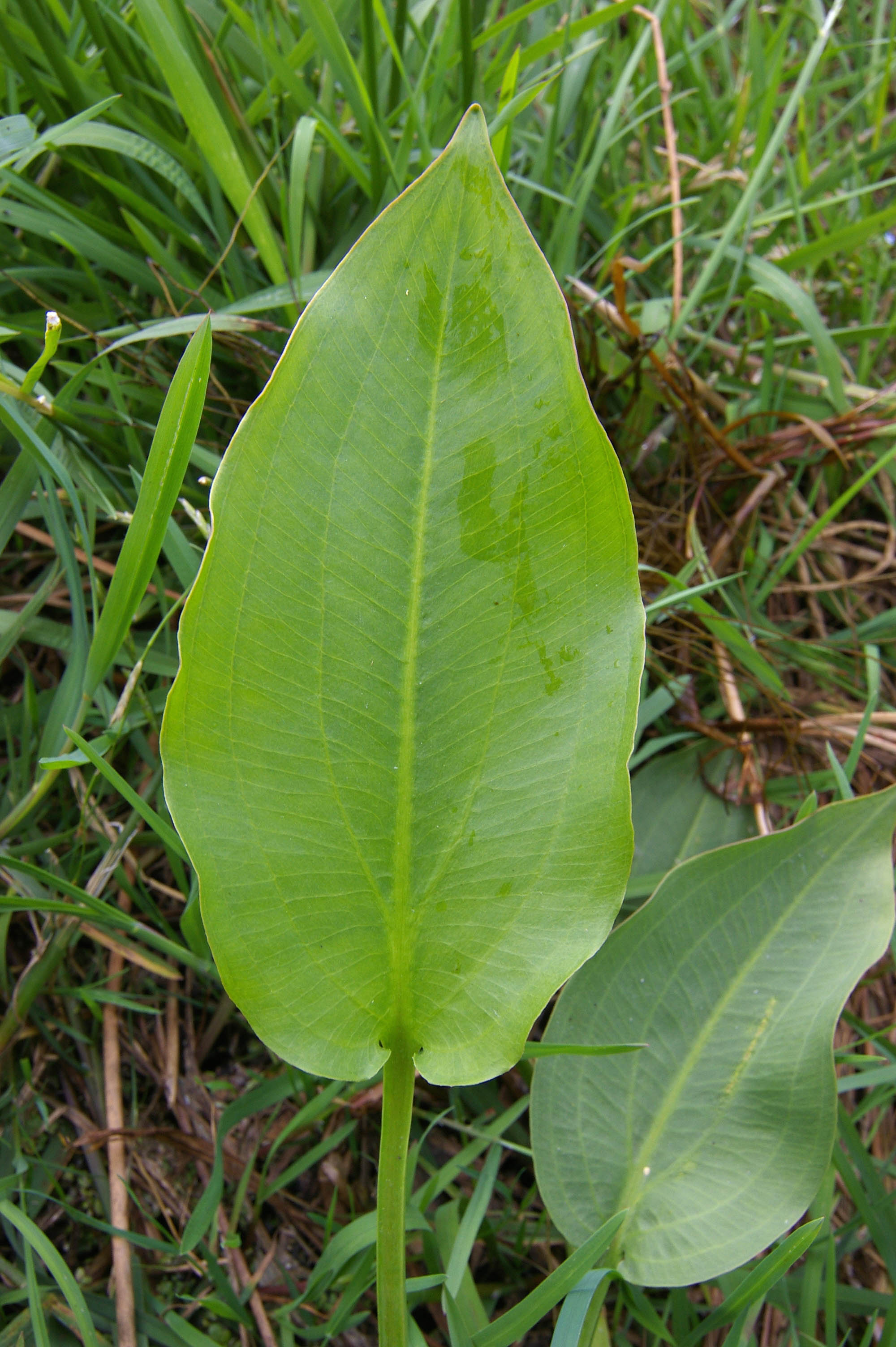 Single leaf of Common Water-plantain, Alisma plantago-aquatica.